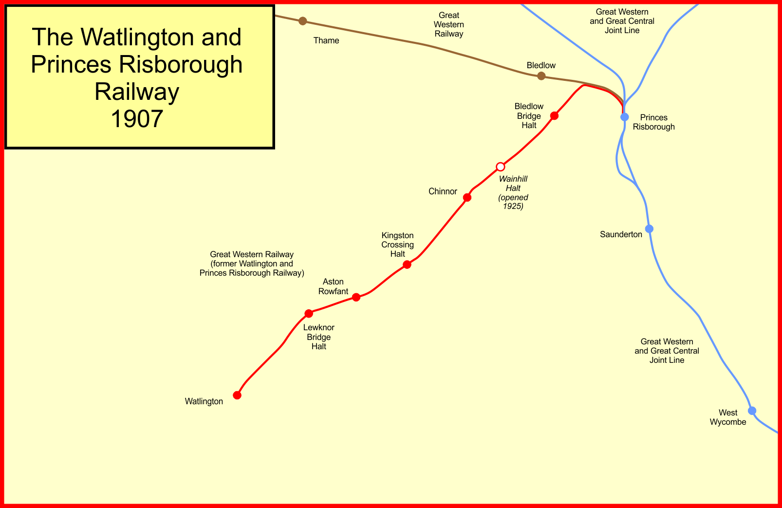 System map of the Watlington and Princes Risborough Railway, England, 1907